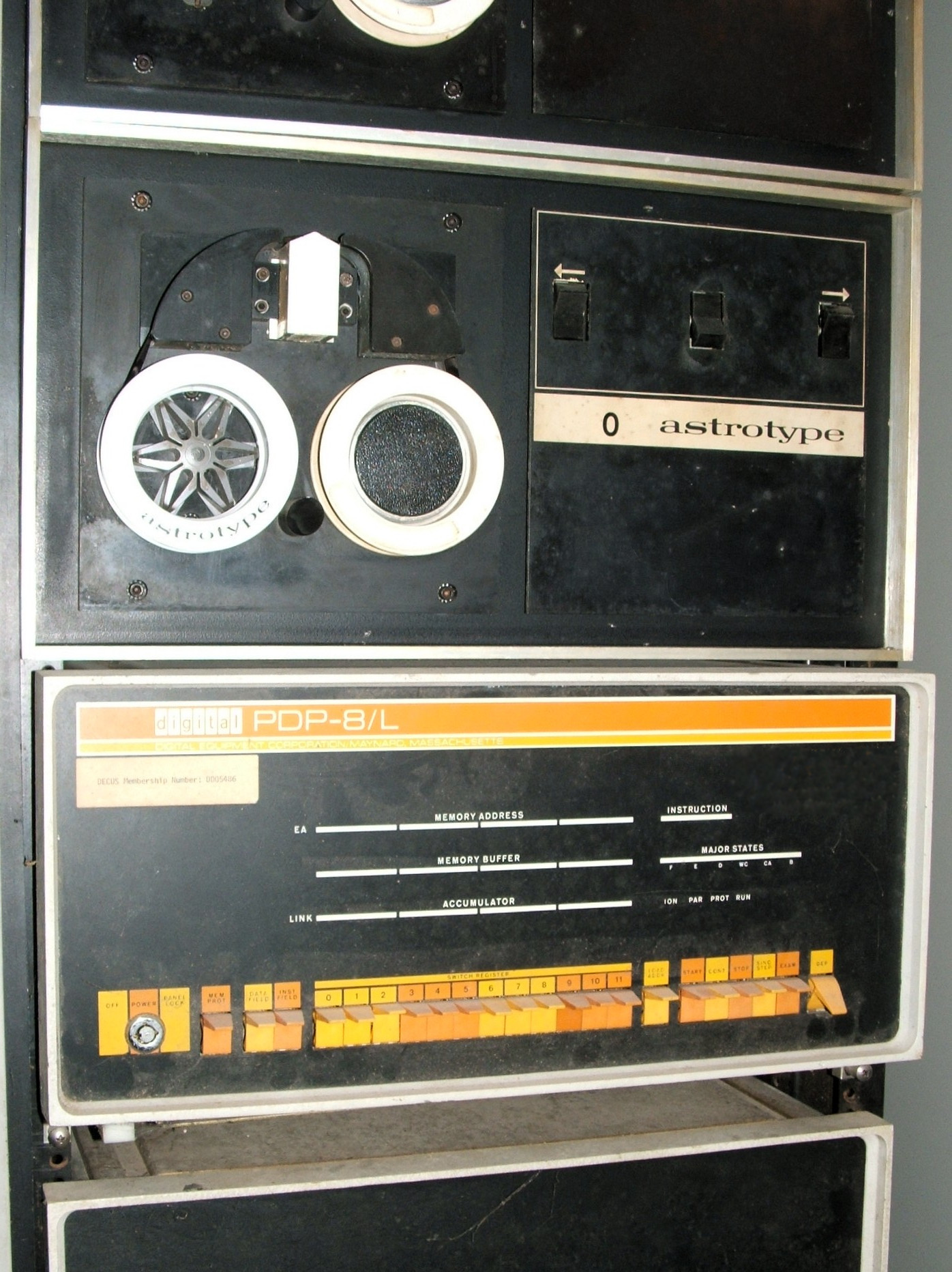 An ICS Astrotype system consisting of a PDP-8/L system, expanded to 8K 12-bit words of core memory, with two simplified TU55 tape drives (branded Astrotype) and a parallel port to drive a Selectric typewriter.